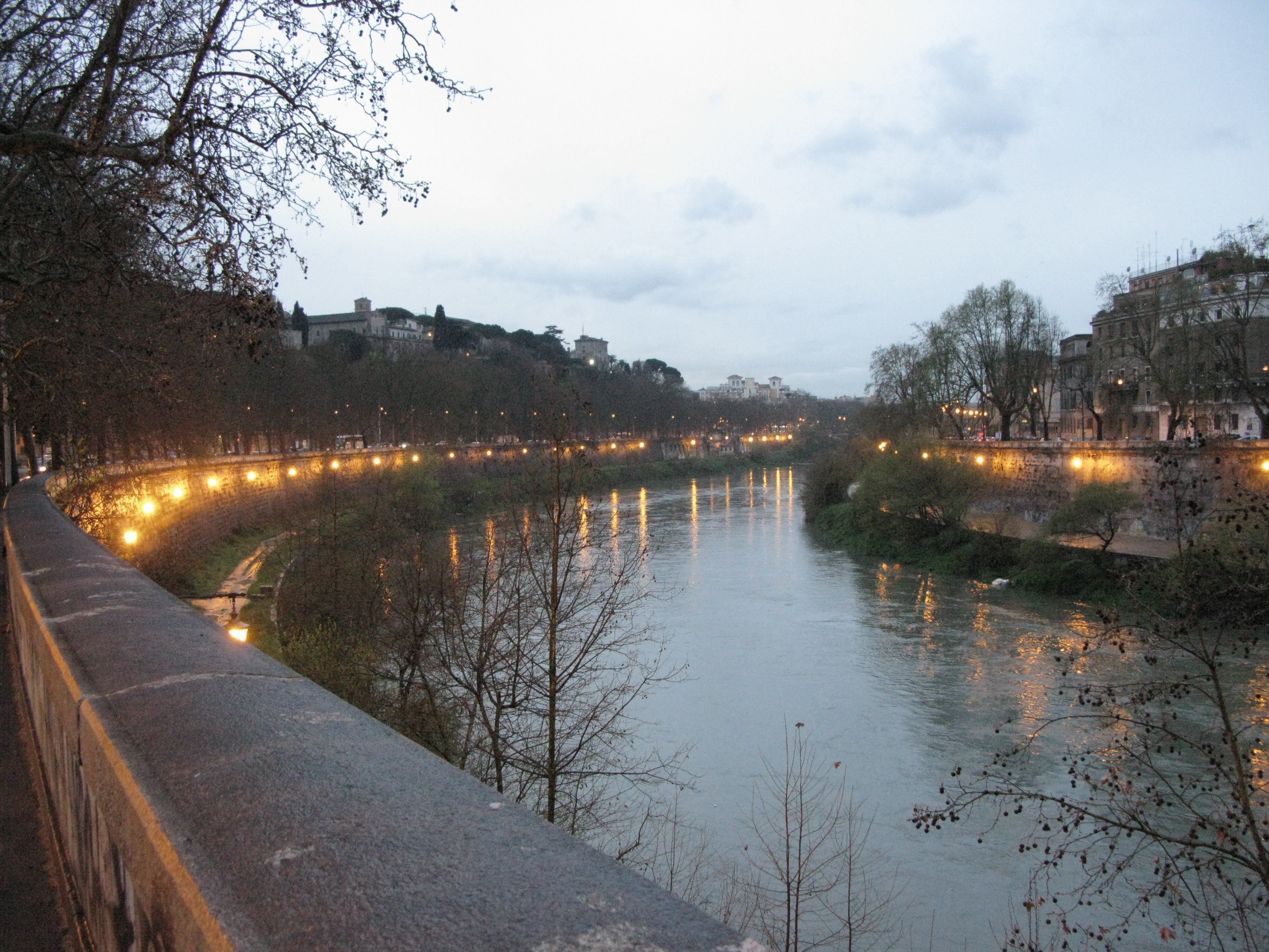 Tevere